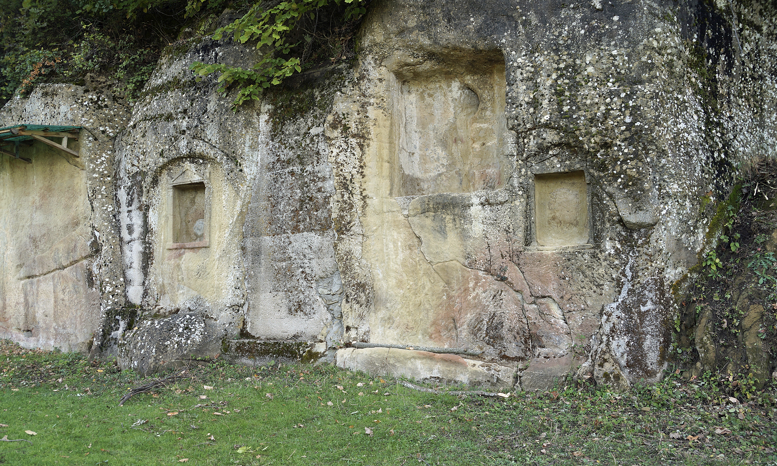 Selca e Poshtmë, Albania: details of the façade of tomb 4